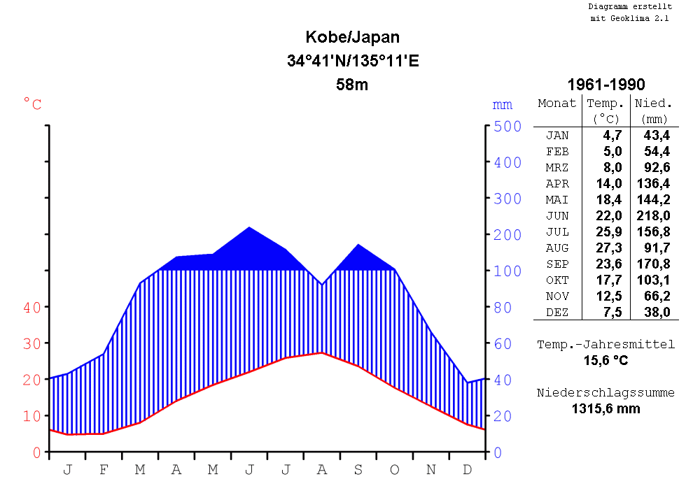 climate chart of Kobe, Japan, for the period of time from 1961 to 1990, in the format by Walter and Lieth, metric, °Celsius and millimeters, chart made with Geoklima 2.1, label in German